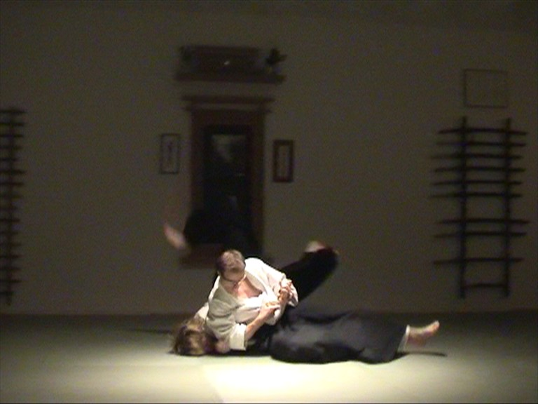 Josef Vikström, UPPSALA AIKKAI. Teknik: Hijikime osae.